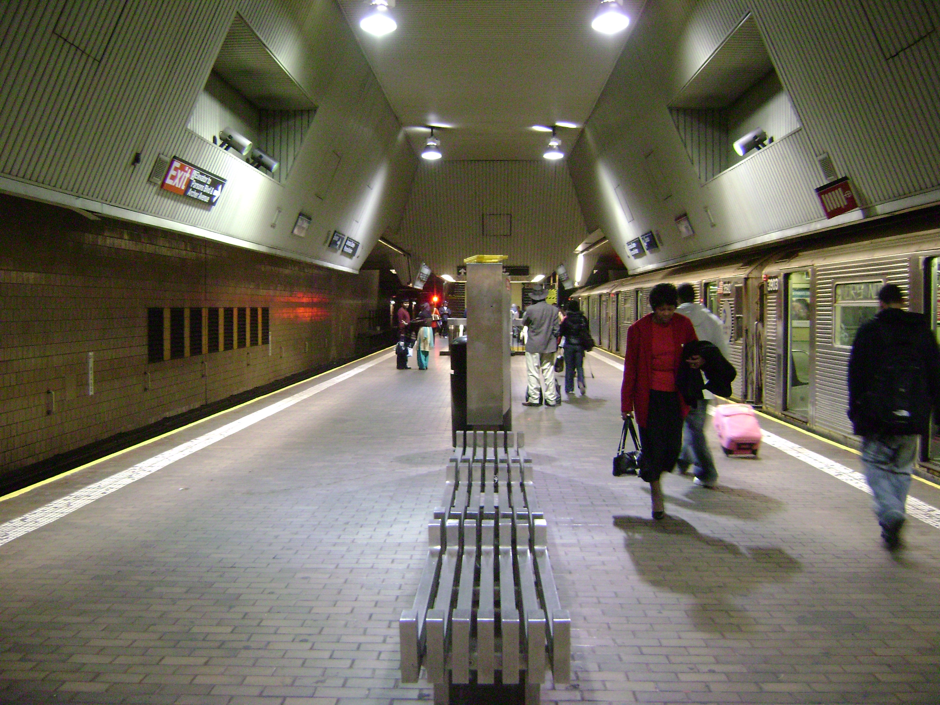 The Jamaica Center-Parsons/Archer (New York City Subway) subway station.